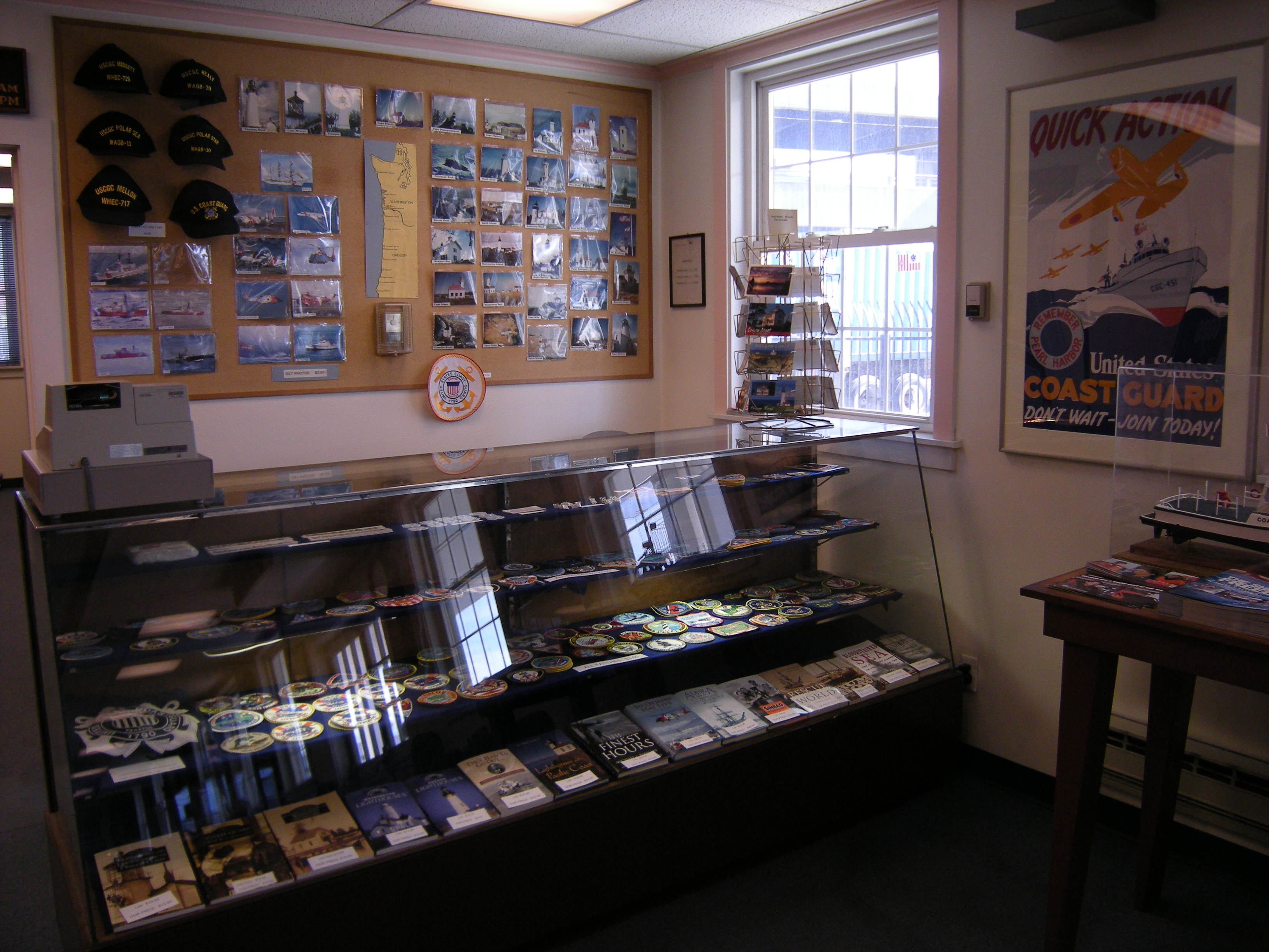 Coast Guard patches and books for sale at Coast Guard Museum/Northwest, Seattle, Washington.